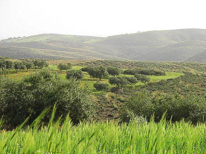 Green mountain of Libya